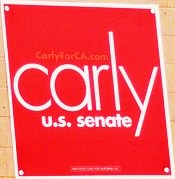 Carly Fiorina's 2010 campaign sign for U.S. Senator from California